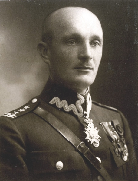 Ignacy Oziewicz (1887-1966) – Colonel of the Polish Army. During IInd World War he was the first commander of the National Armed Forces (NSZ)